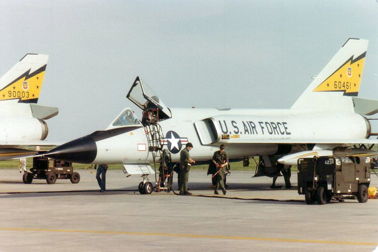 I took this photo of a Convair F-106 Delta Dart (60461) from 5th Fighter-Interceptor Squadron at CFB Moose Jaw in 1982